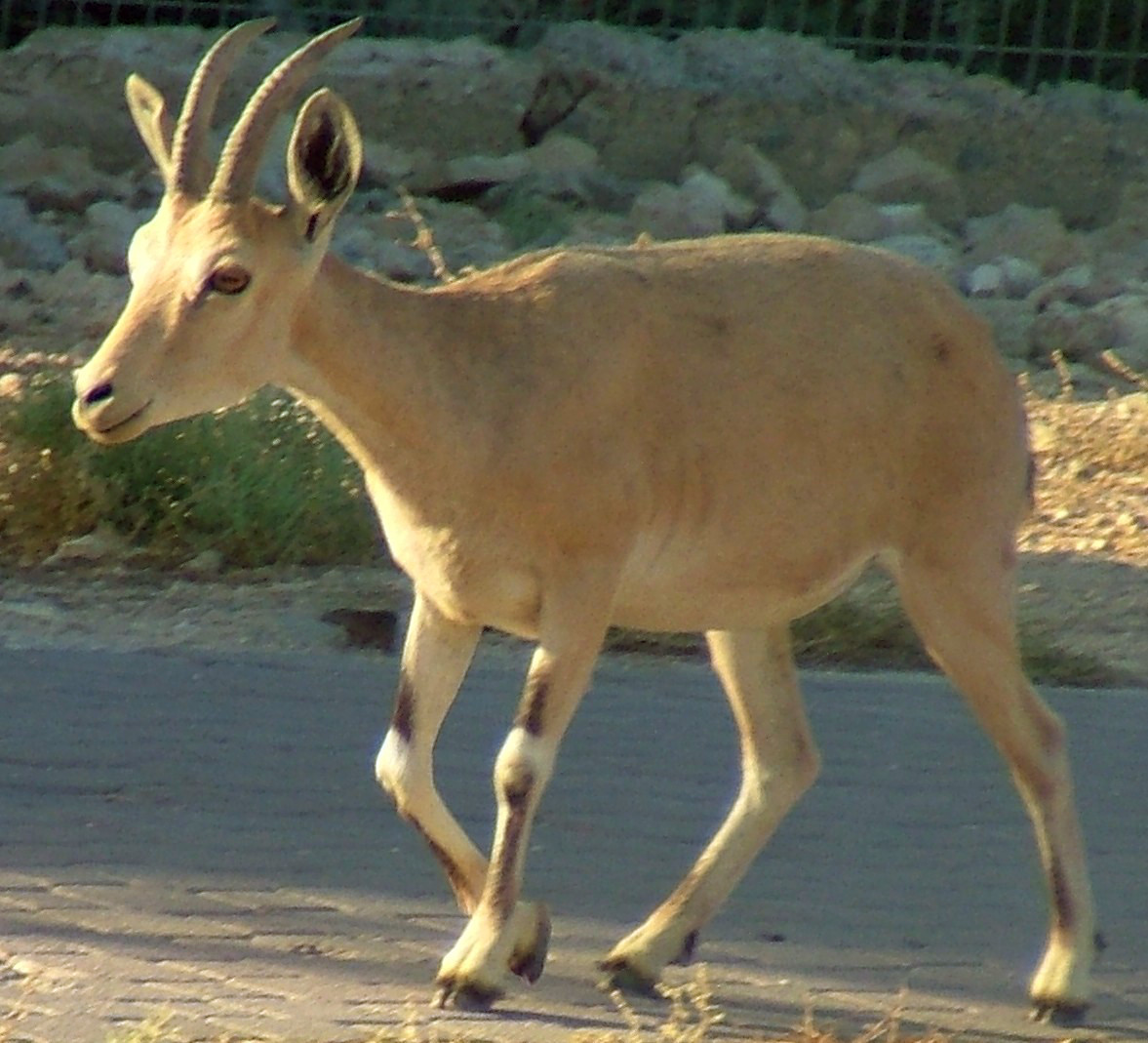 A Nubian Ibex (Capra nubiana) in Mitzpe Ramon, Israel.